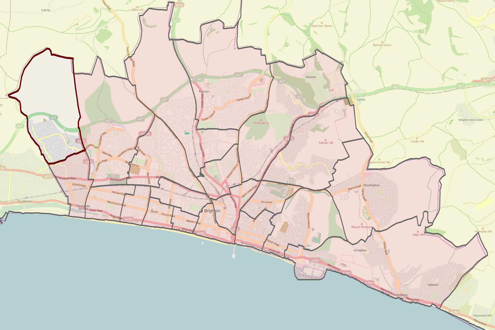 Map of Brighton and Hove wards with one ward highlighted